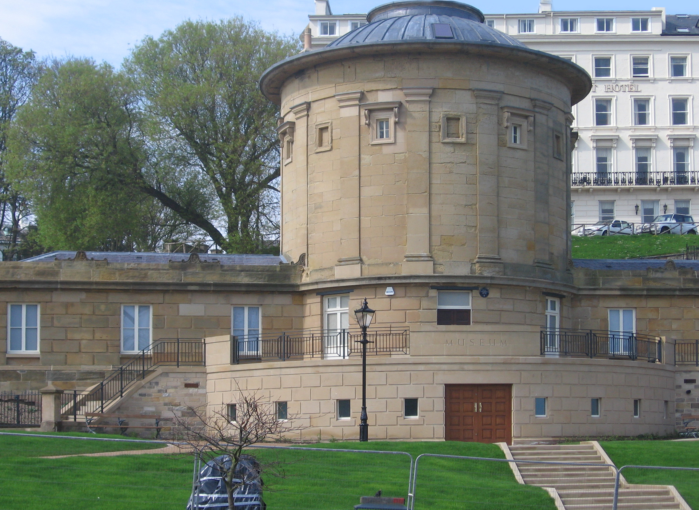 Rotunda Museum Scarborough in North Yorkshire, England